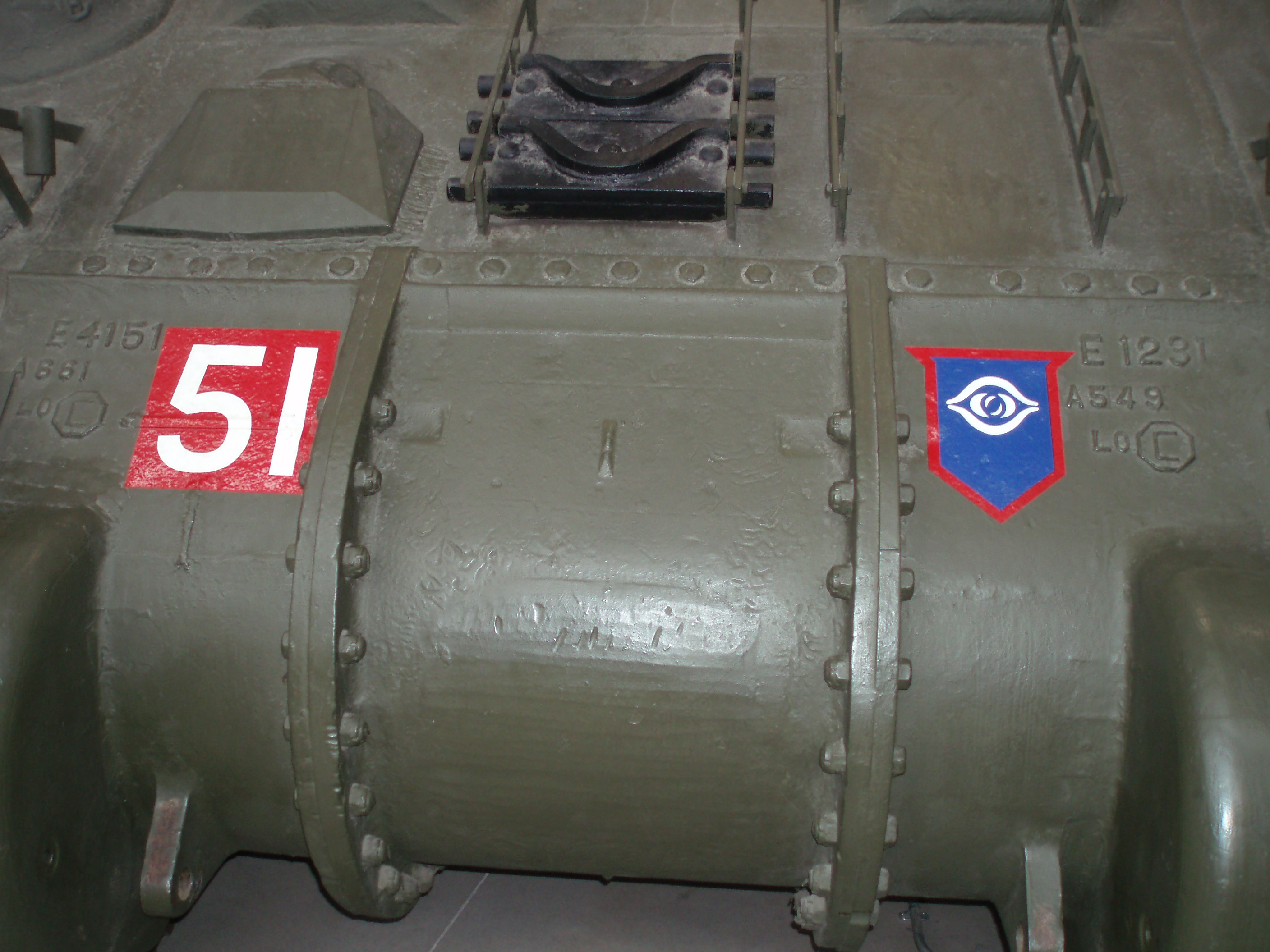 Bovington Tank Museum 125 Sherman